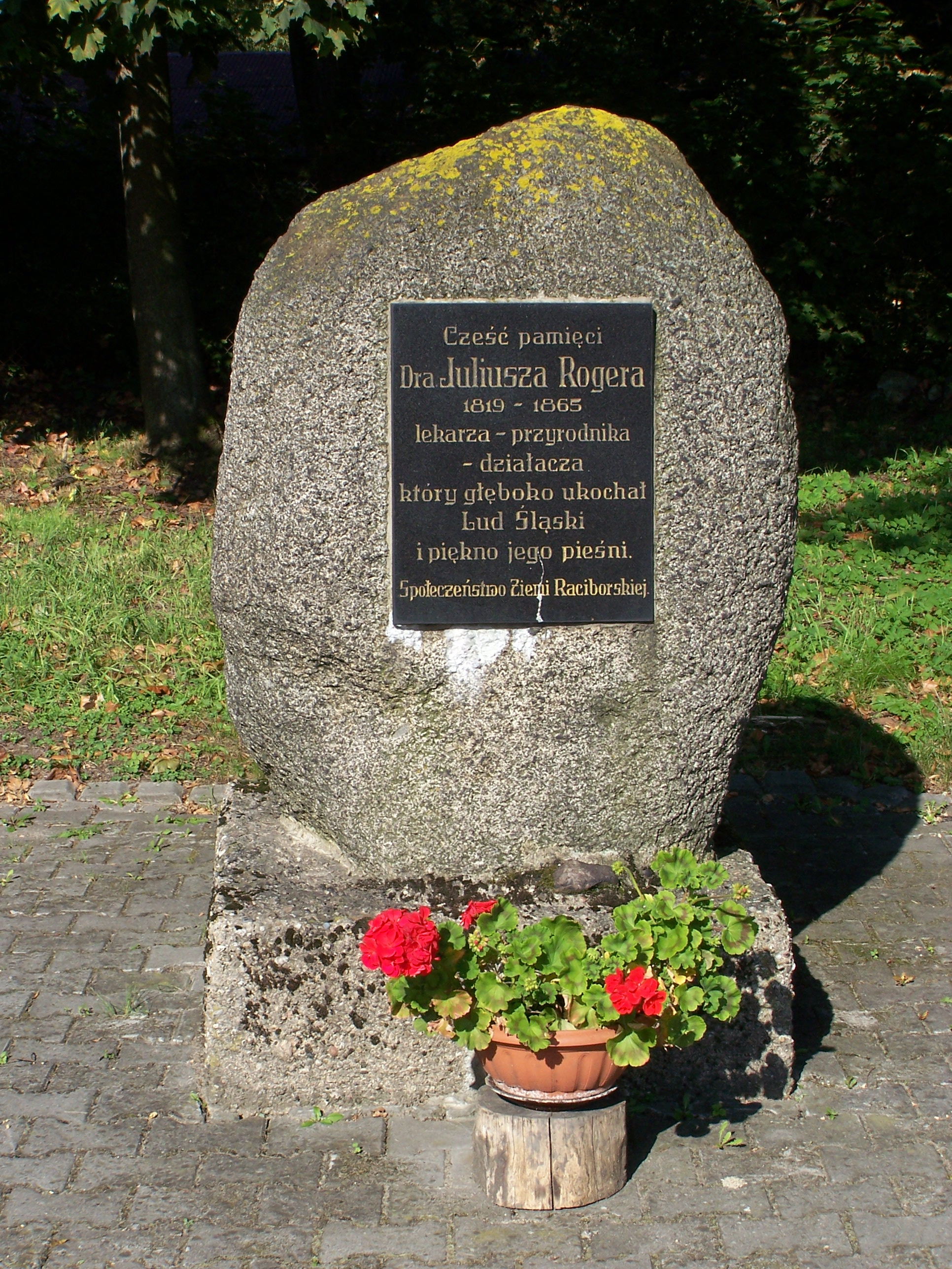 Juliusz Roger monument in Rudy (Poland).